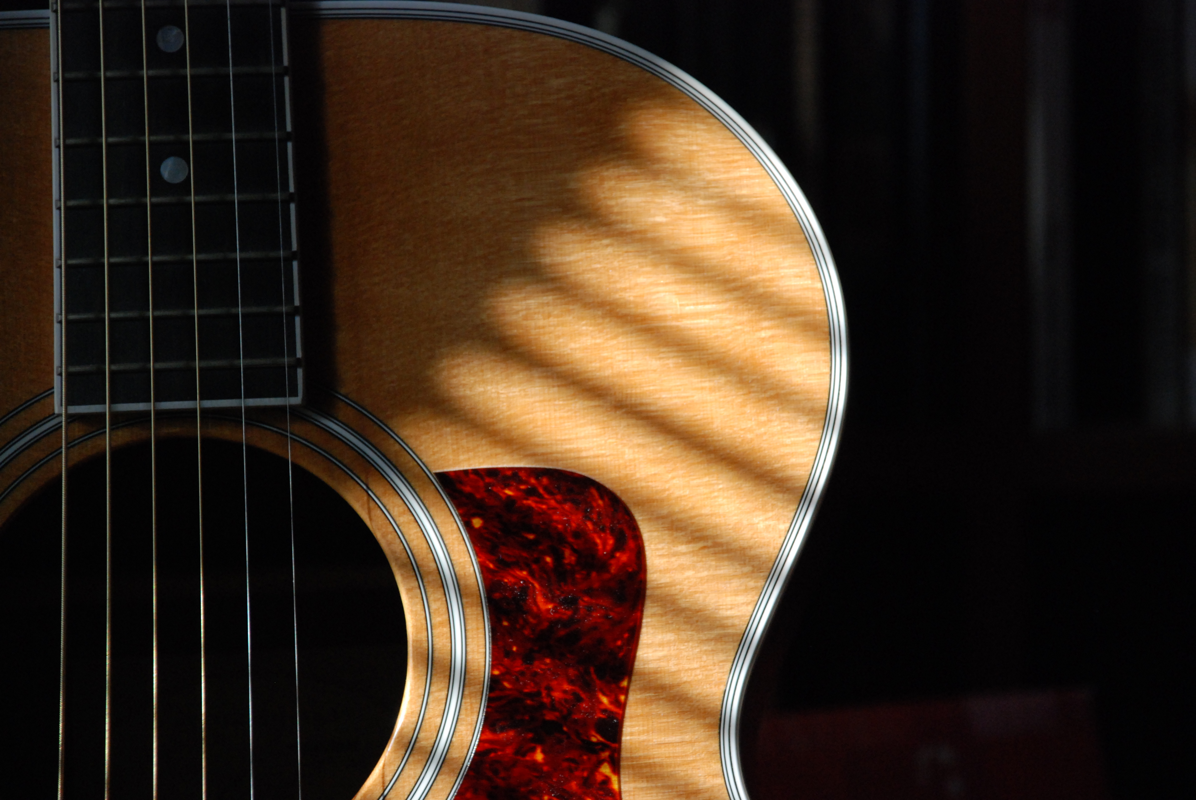 Taylor steel-string guitar. Taylor 415 Jumbo Acoustic Guitar